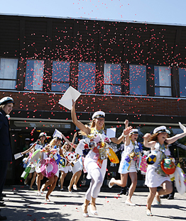 Students emerging from Katedralskolan in Skara, Sweden